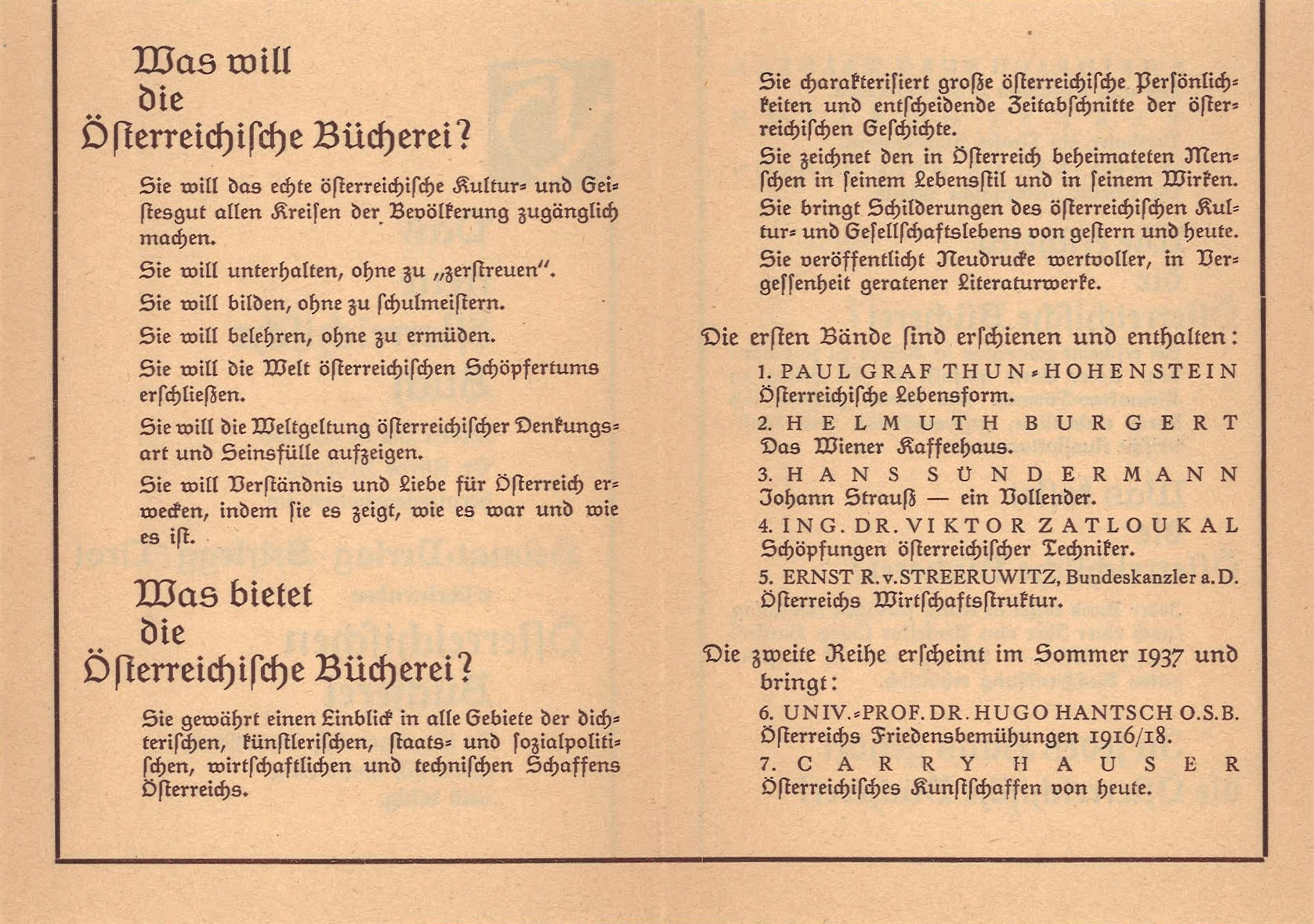 Advertising leaflet for the book series "Österreichische Bücherei" from 1937, backside (Heimat Verlag Brixlegg/Tirol)